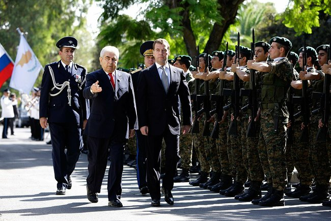 Official welcoming ceremony. With President of the Republic of Cyprus Demetris Christofias.